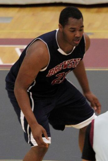 Class of 2009 Reggie Moore, who currently plays NCAA BB for Washington State University, driving against Brewster Senior Markus Kennedy, who'll be playing for Villanova next year.